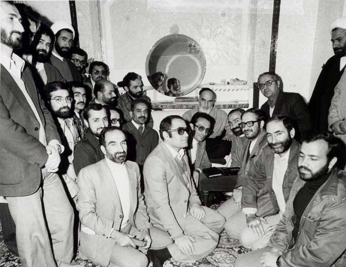 Ayatollah Khomeini, former supreme leader of Iran; meets people of Second Cabinet of Islamic Republic of Iran in Jamaran.